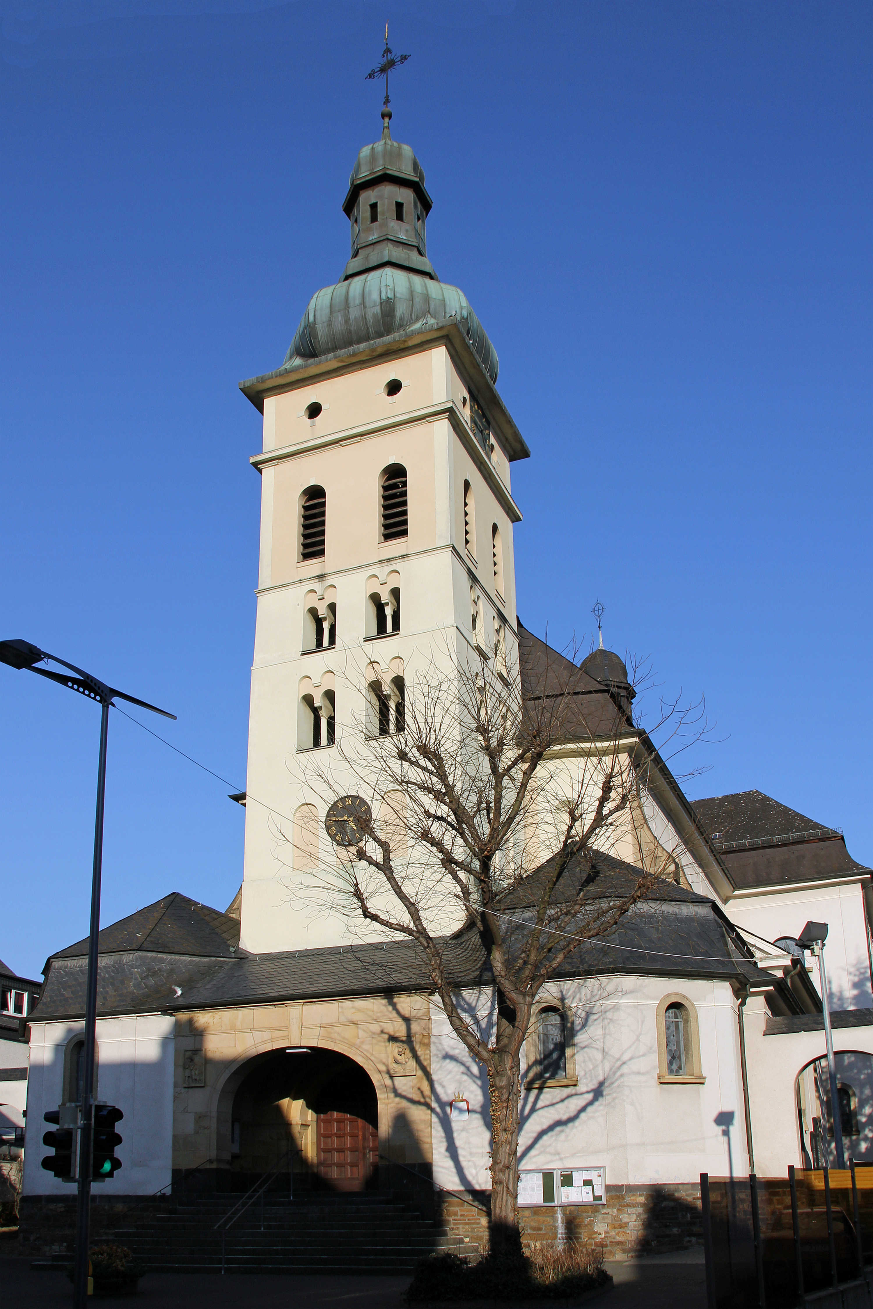 St. Maximin church in Koblenz